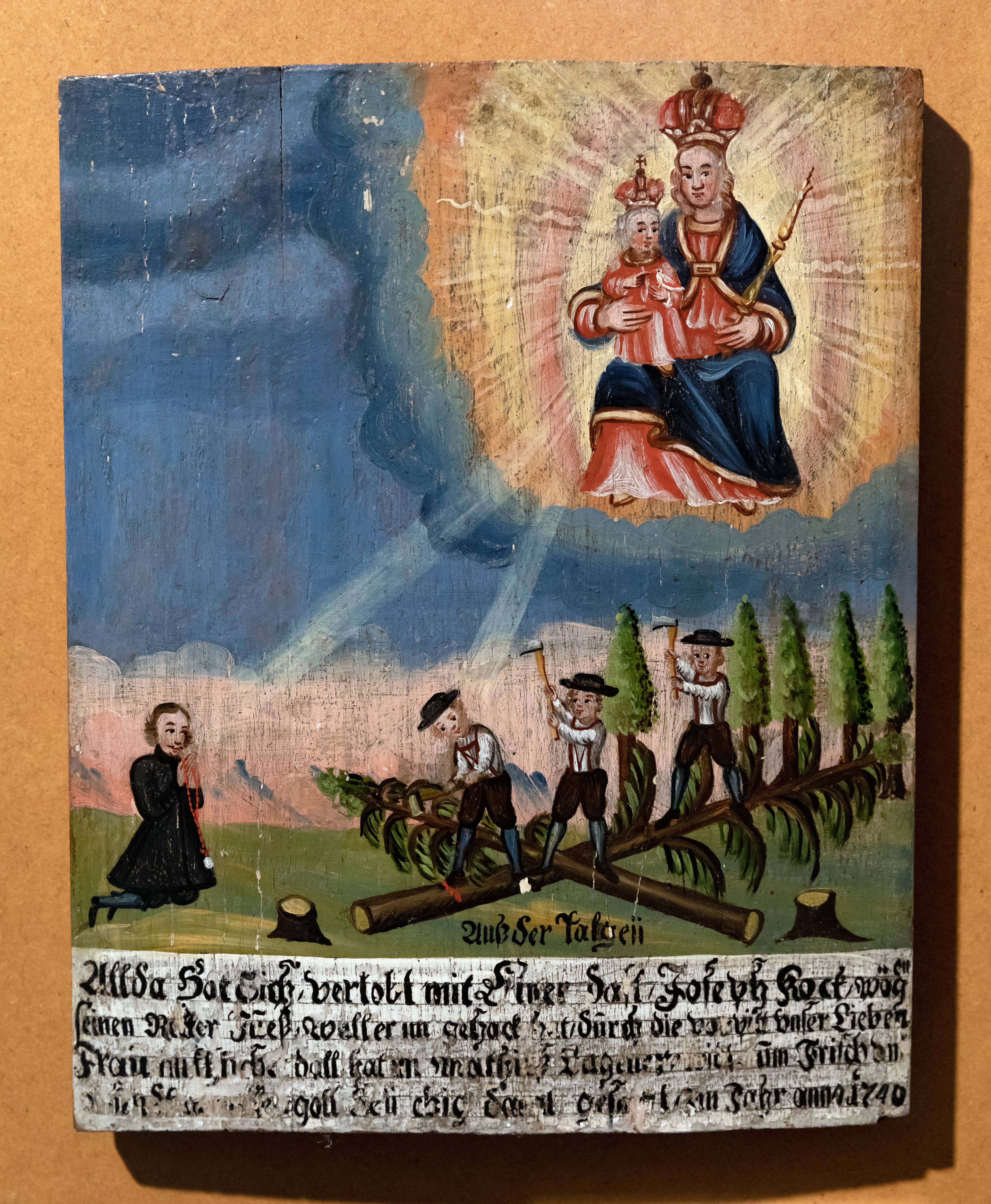 Votive painting (from Maria Kirchental, Sankt Martin bei Lofer, Salzburg, 1740) at the Austrian Museum of Folk Life and Folk Art at Palais Schönborn, Vienna, Austria.